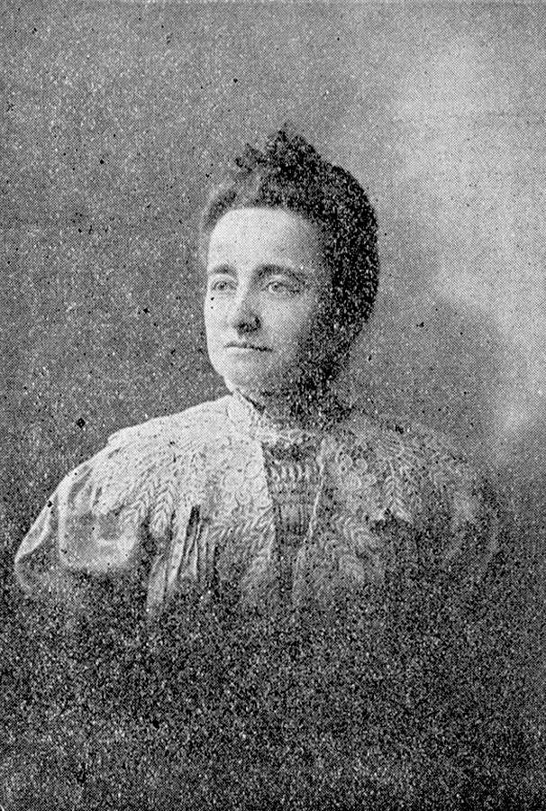 Ida Craft from a newspaper in 1904